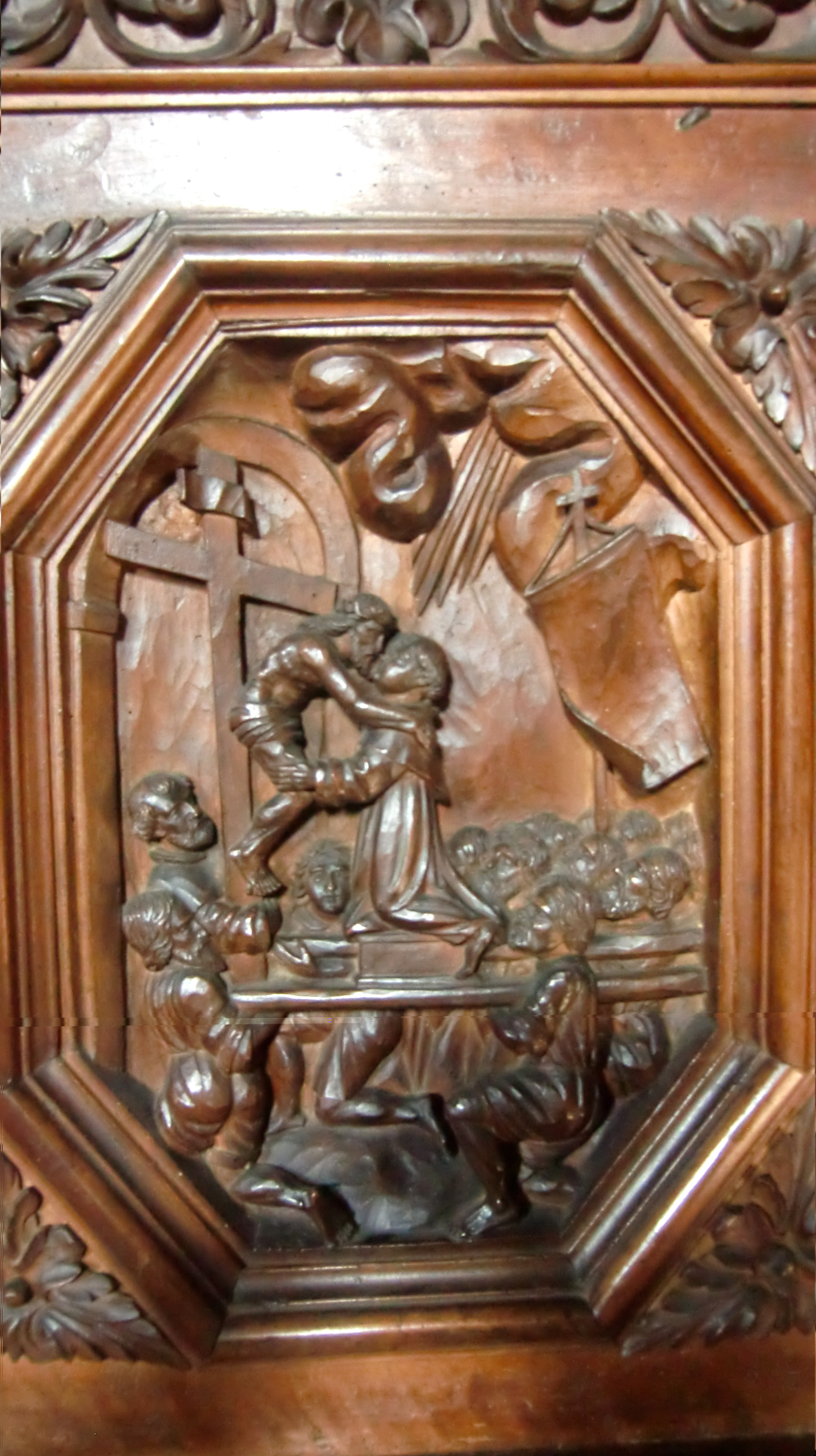 Francesco Mabrito, Episode in the life of St. Nicholas of Tolentino, 1684, wooden relief, choir stalls, Chiesa di San Nicola da Tolentino, Ivrea, Italy